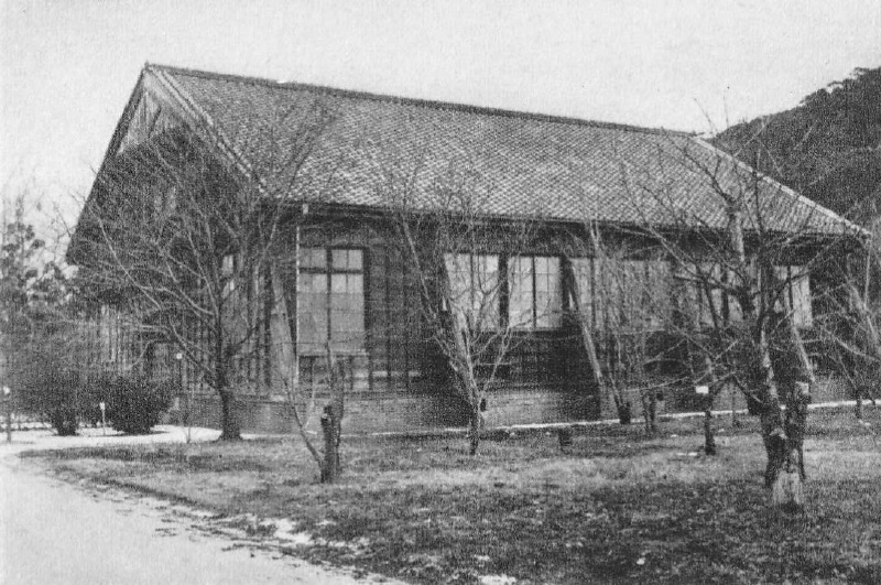 The judo hall of Sixth higher school in Okayama,, Japan.